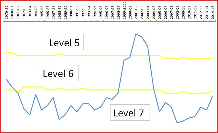 Graph showing the league postitions of Margate F.C. since 1979. Created by myself using data from The Football Club History Database